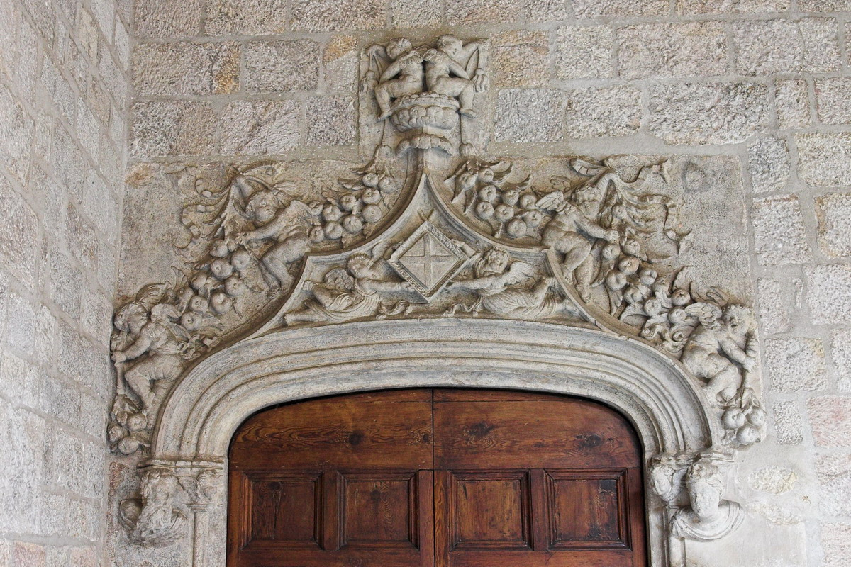 Sculptures at door in gothic gallery of Palau de la Generalitat (Catalan Government Seat) in Barcelona. 16th century - renaissance style. Probable from Joan de Tours